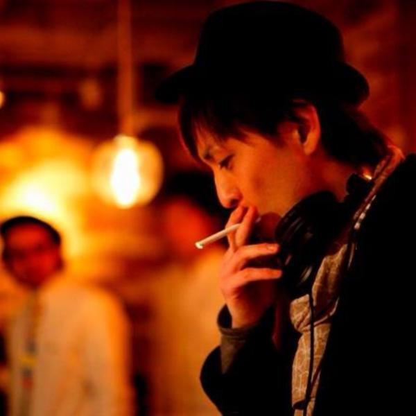 Robert de boron profile